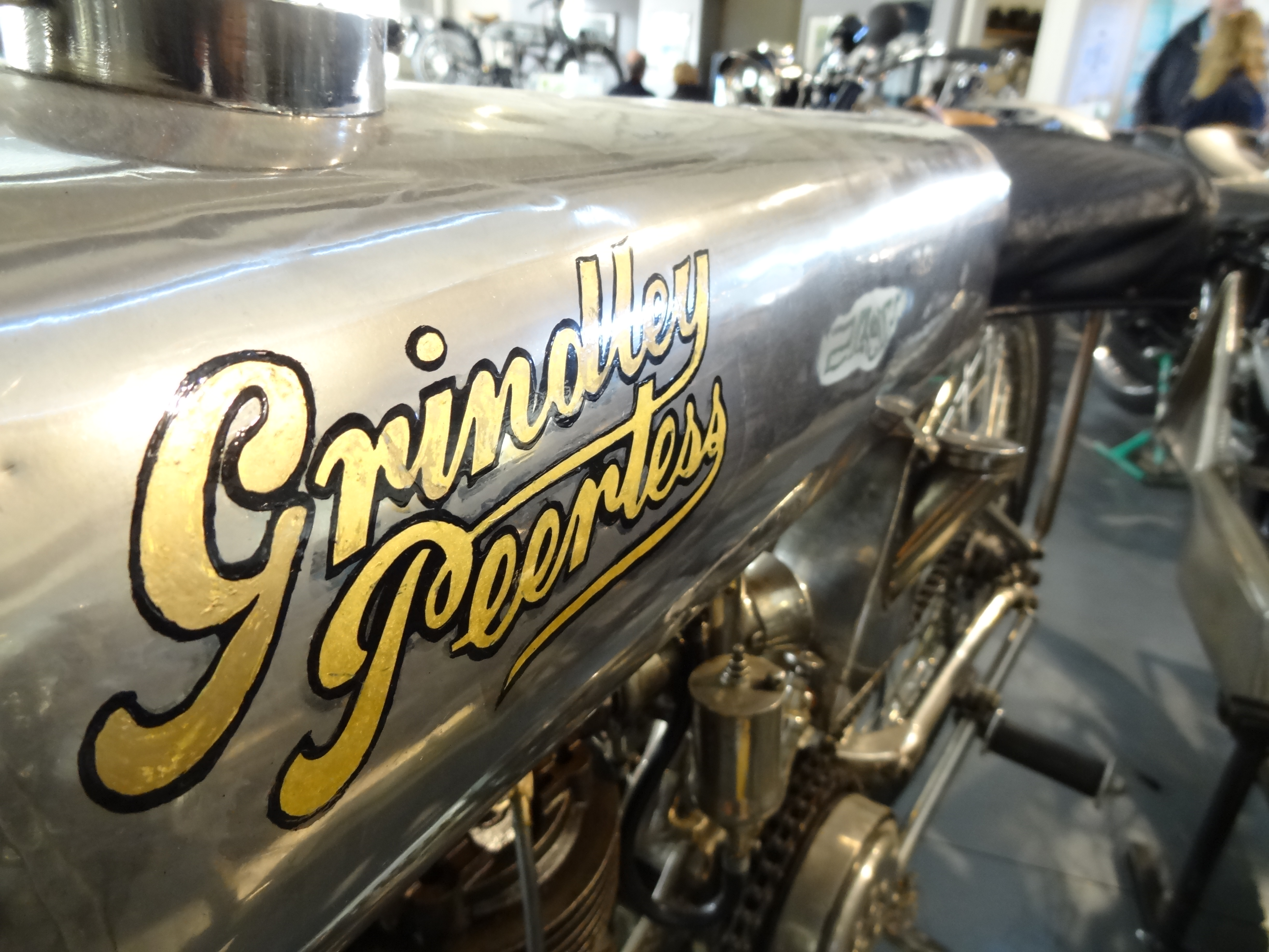 Grindlay Peerless Motorcycle